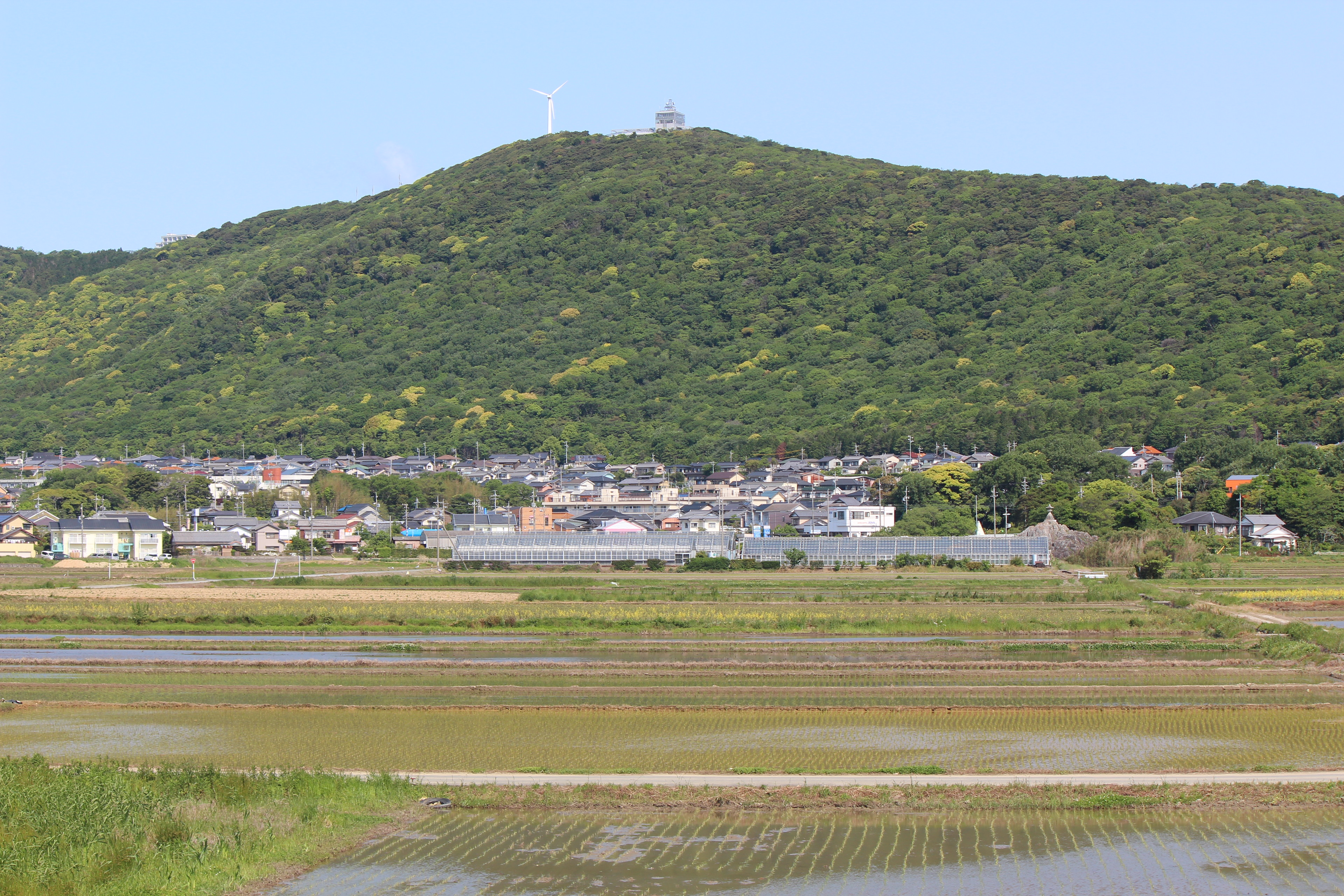 Mount Zao Tahara